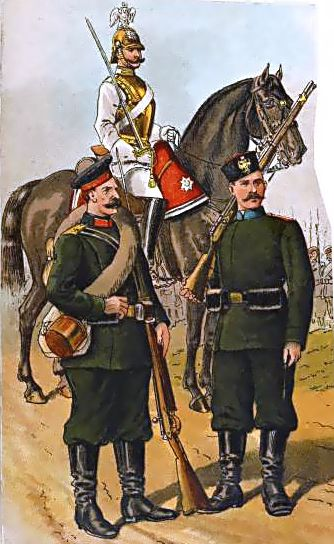 Russian soldiers wearing M1882 uniform.